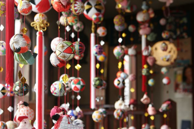 Colorful Sagemon displayed at a restaurant in Yanagawa. I am the author of this photo (Ben Cook)